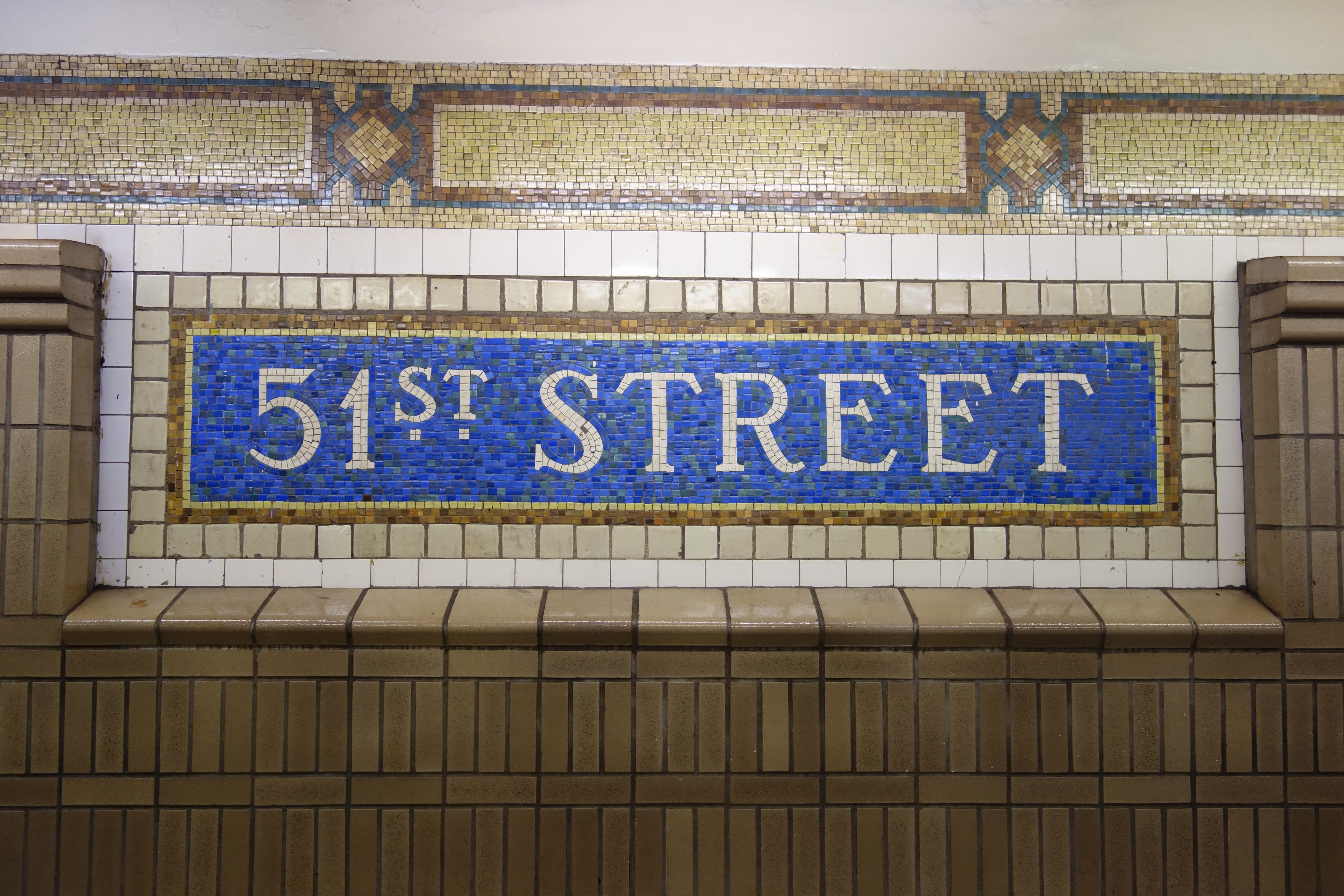 A Dual Contracts mosaic on the Uptown platform of the 51st Street IRT Lexington Avenue station in East Midtown, Manhattan.